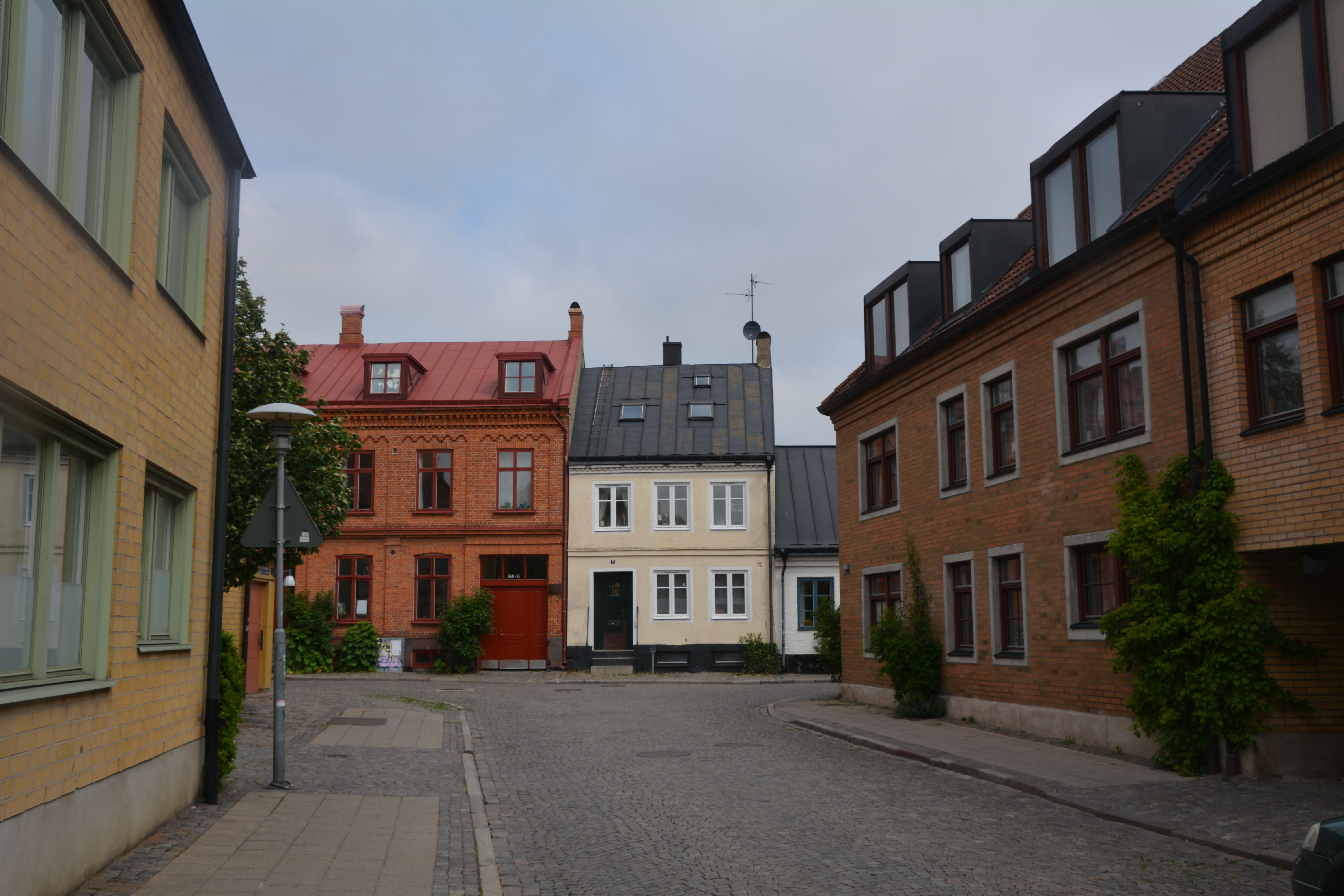 Prennegatan/Stora Tvärgatan in Lund, Sweden